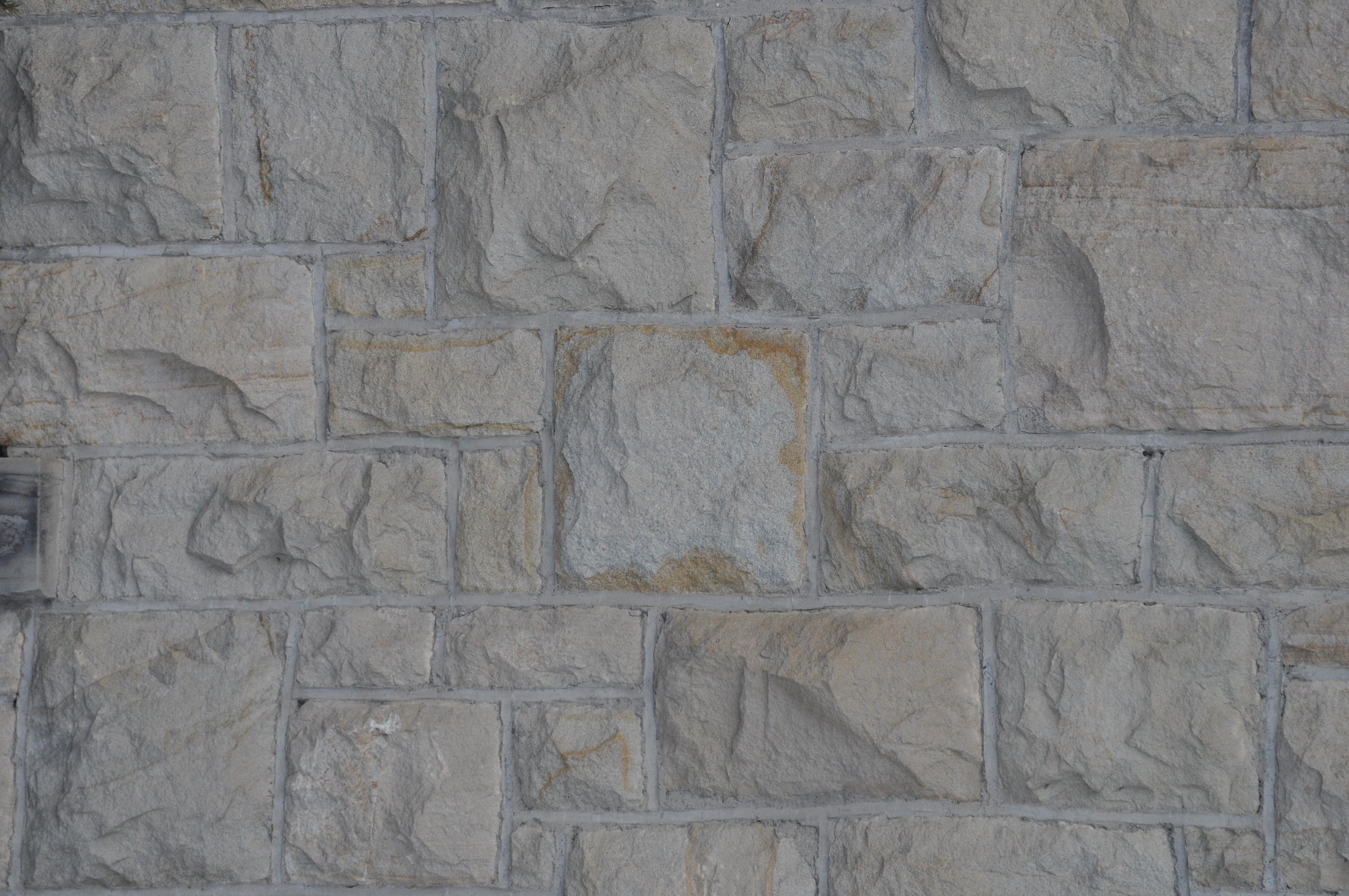 Stone walls from Double Officers' Quarters, Fort Yellowstone, Yellowstone National Park, December 2012